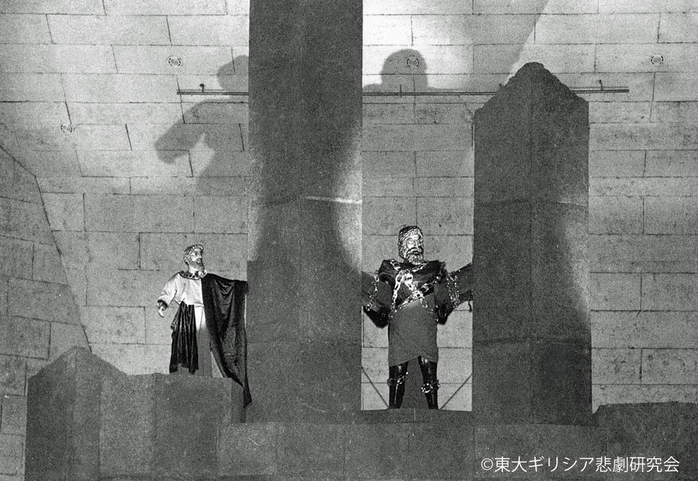 Greek Tragedy 1960 Tokyo University Greek tragedy Institute-c